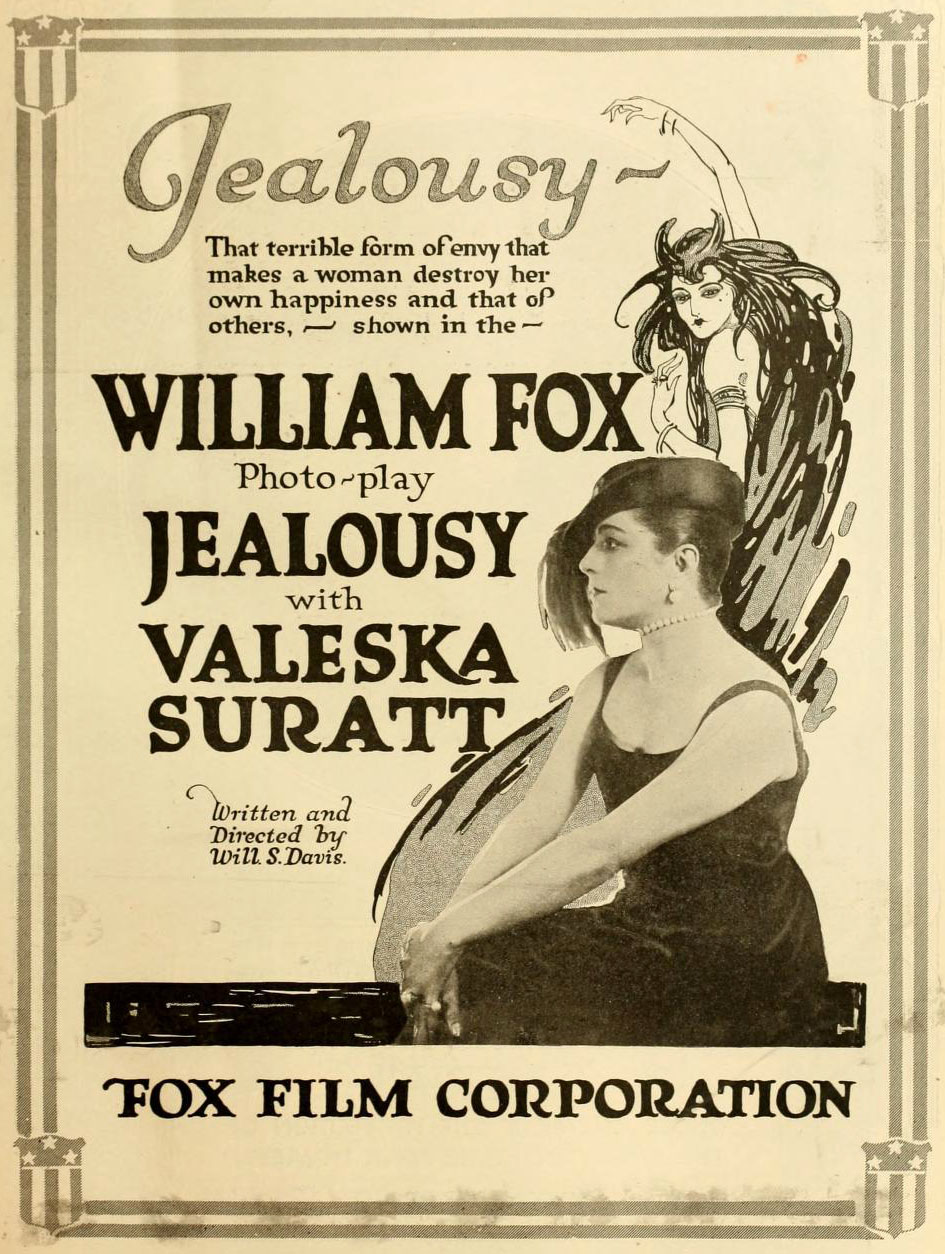 Advertisement in Moving Picture World for the film Jealousy (1916).